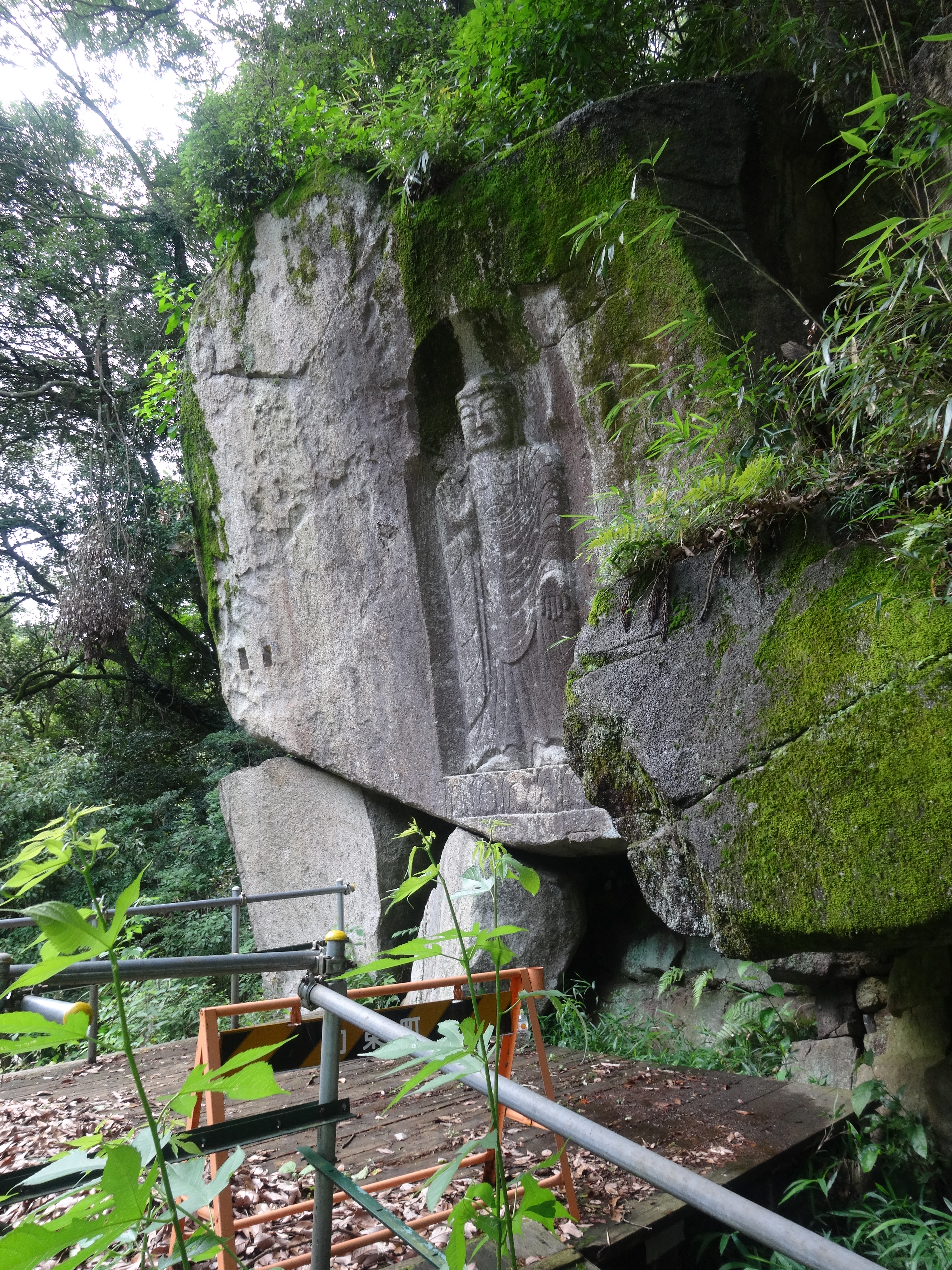 Miroku Magaibutsu(Wazuka)